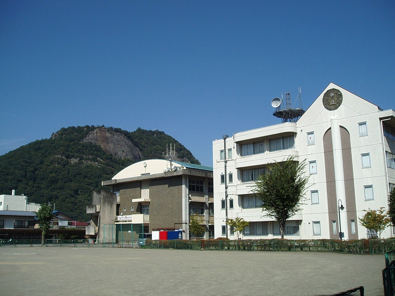 Ohtsuki City College and Mount Iwadono (left), located in Ōtsuki, Yamanashi, Japan.